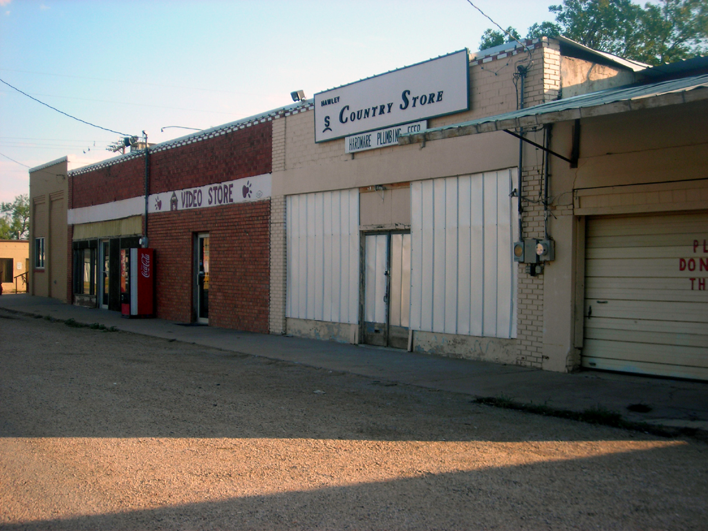 A row of mostly closed businesses in Hawley, Texas.